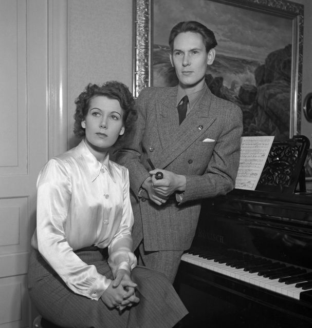 Photograph of the Finnish opera vocalist Aulikki Rautawaara (1906–1990) and his brother, cellist Pentti Rautawaara (1911–1965).